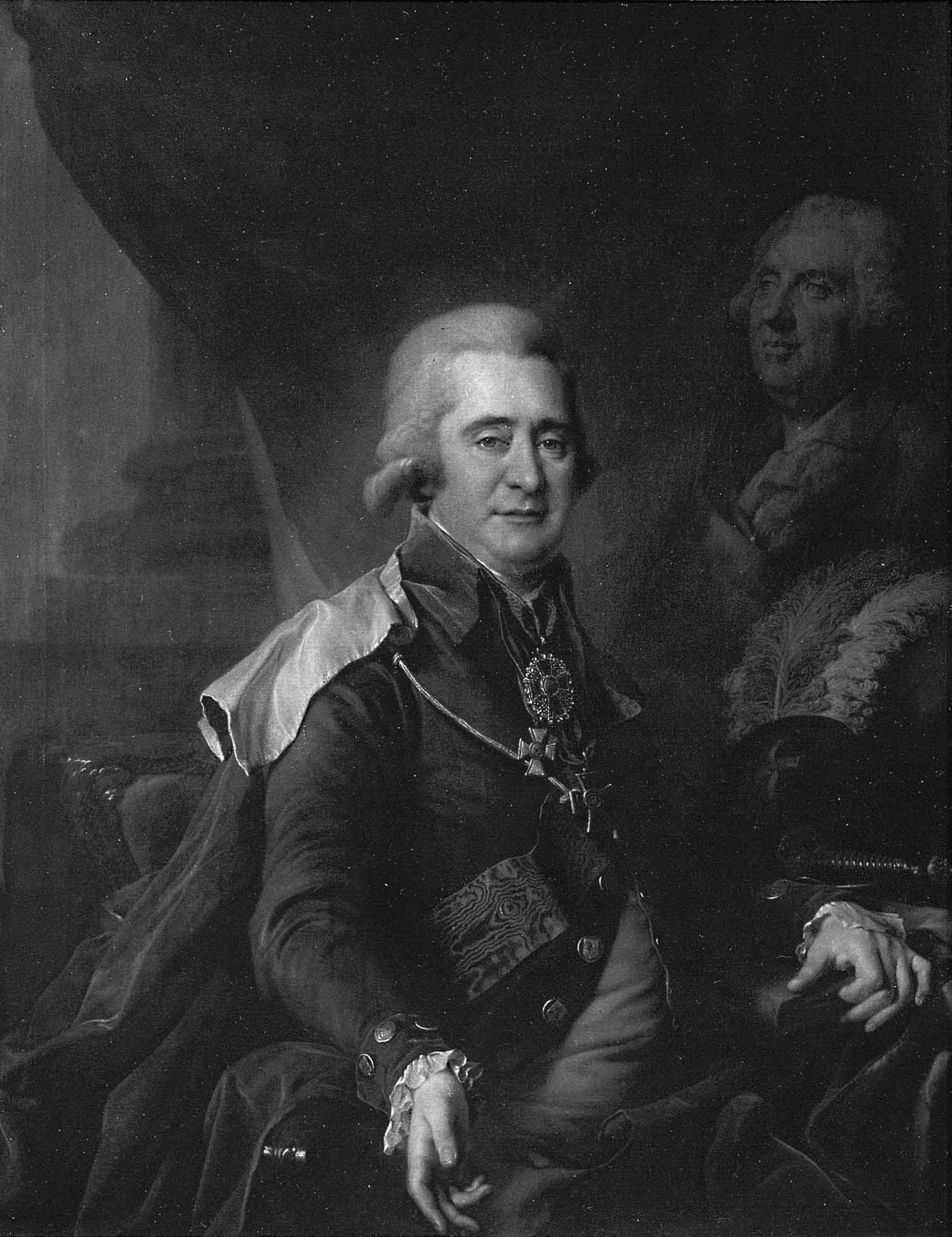 Ilya_Andreevich Bezborodko (1756 — 1815) was a Russian general and statesman